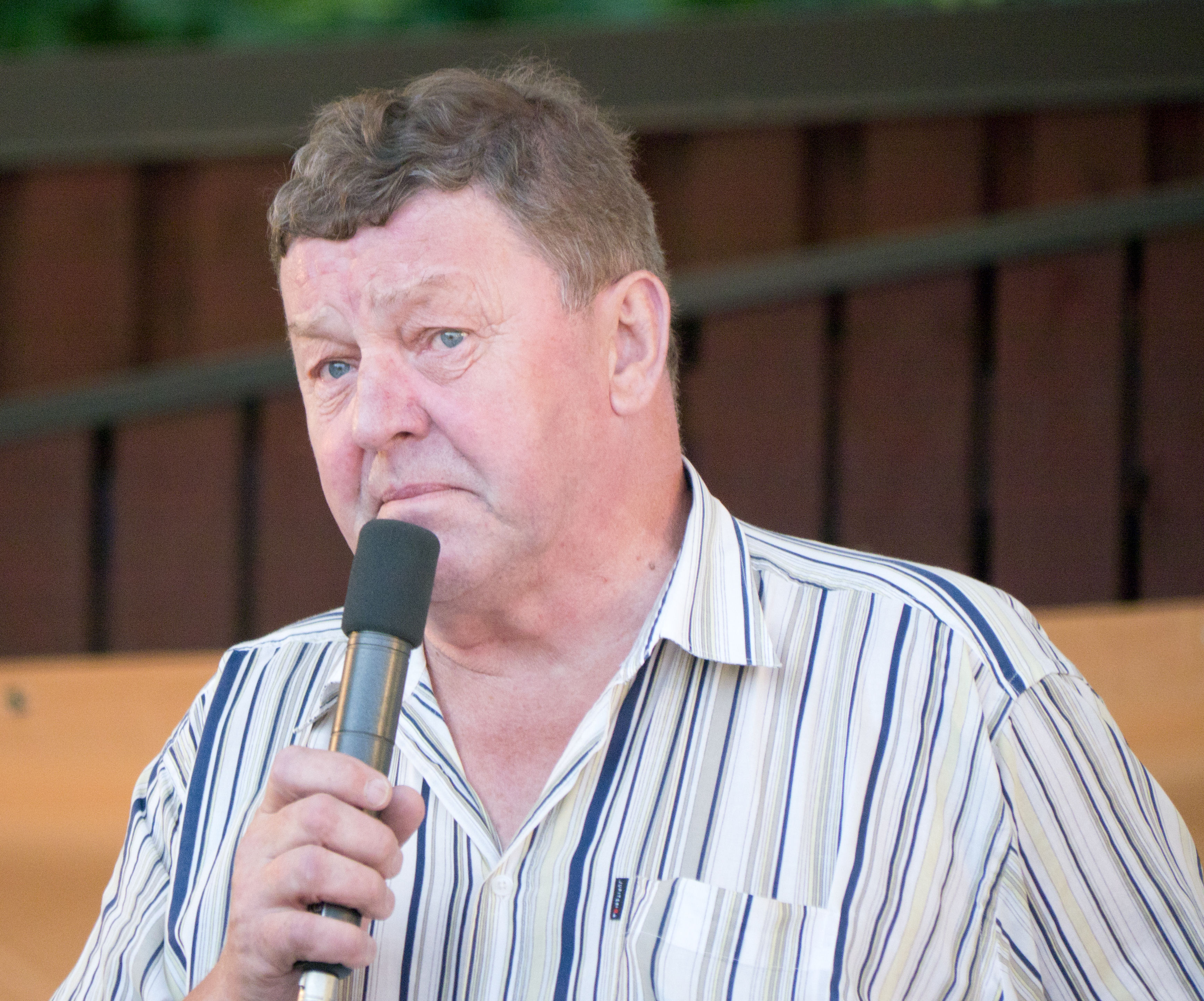 Jukka Roos